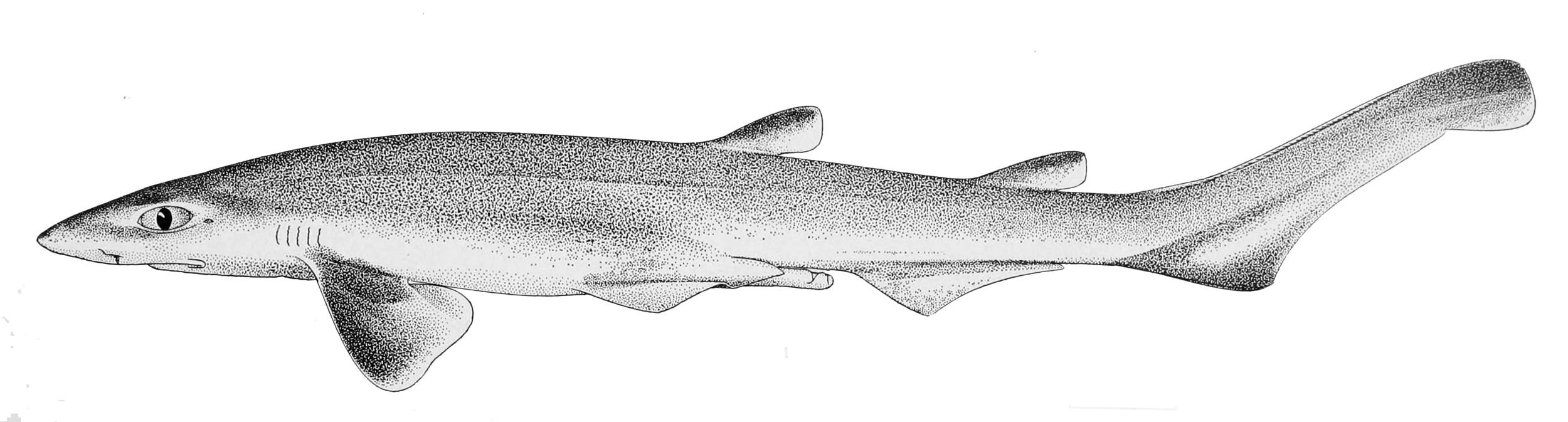 Pristiurus sauteri (=Galeus sauteri), illustration accompanying original species description